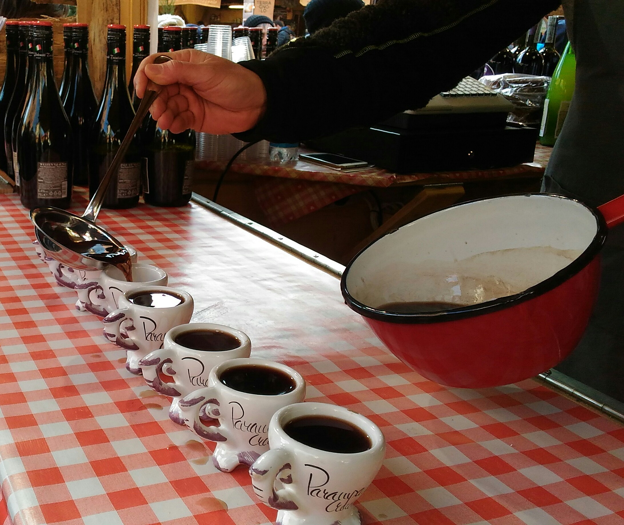 Parampampoli: typical alcoholic beverage of Trento (Italy).